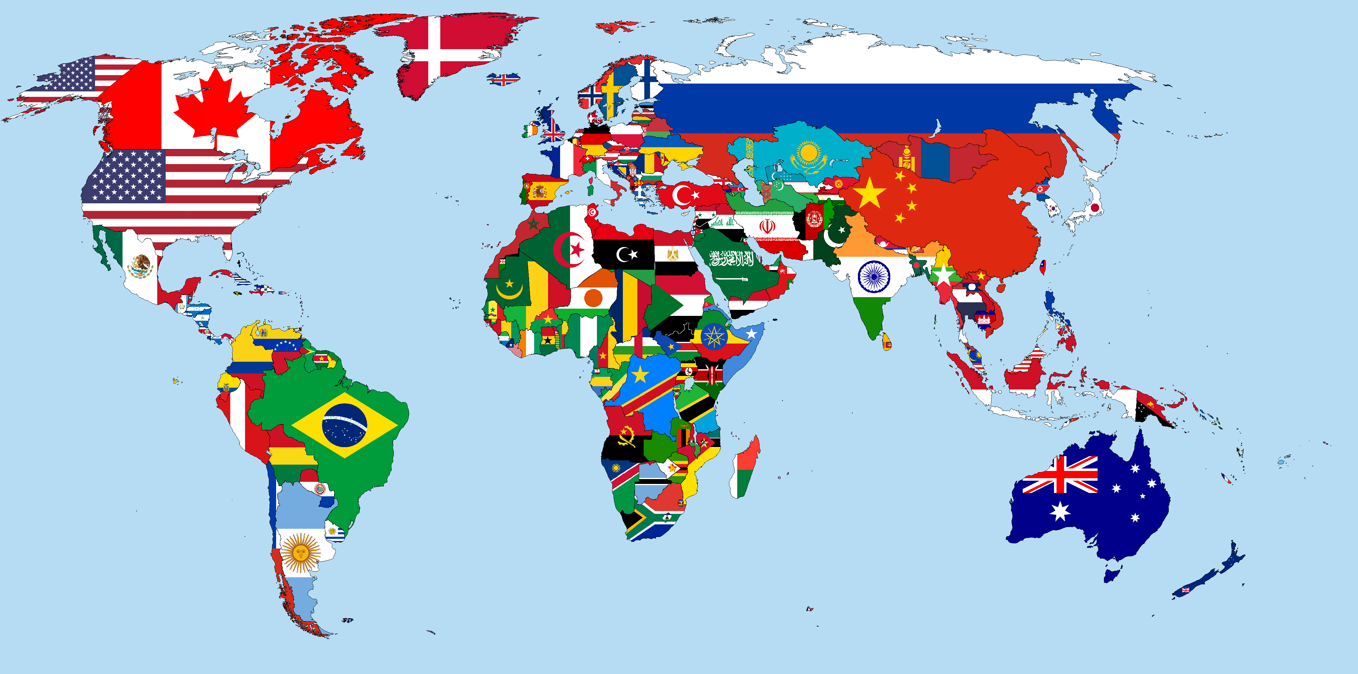 Flags map in 2017